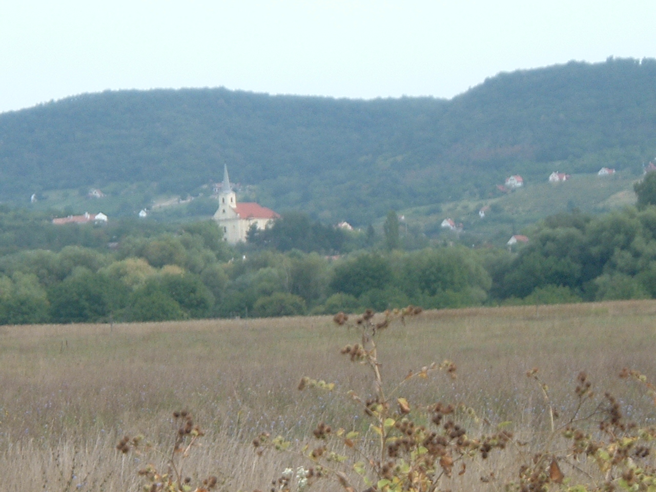 Szentbékkálla